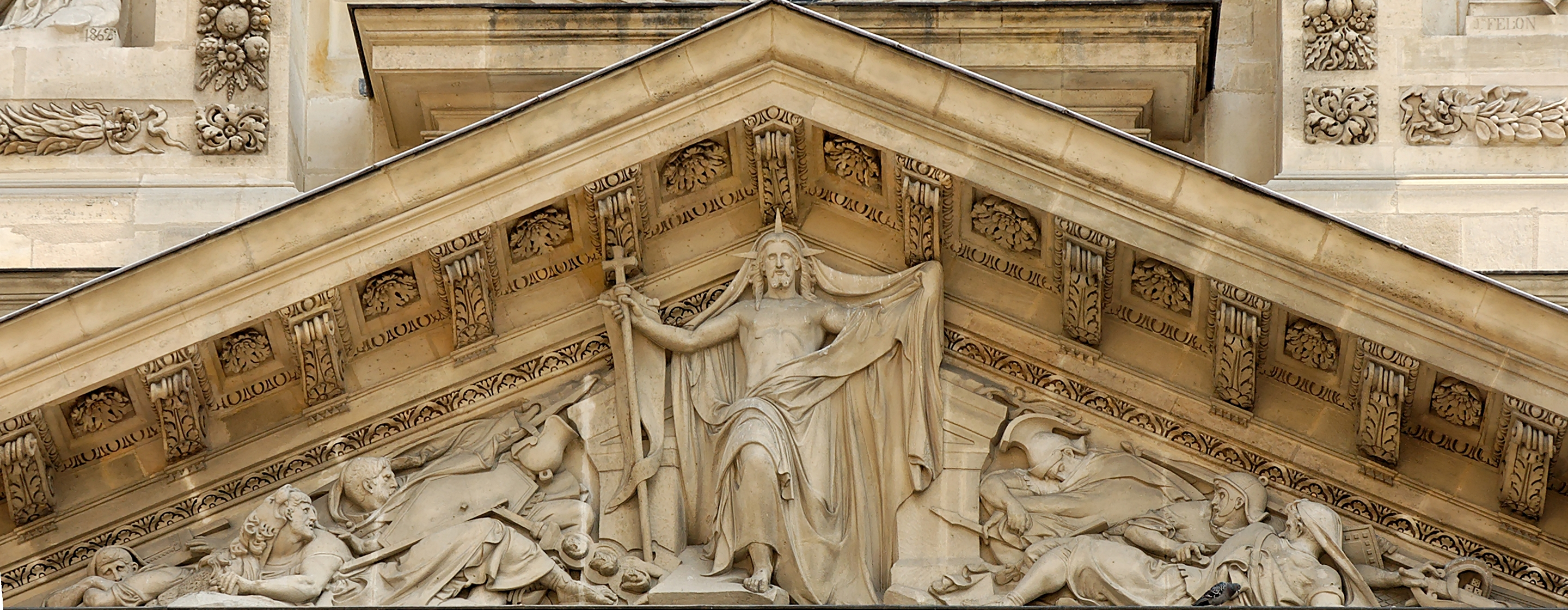 Victorious Christ, by Auguste de Bay (French, 19th century). Pediment of the 17th-century church Saint-Étienne-du-Mont ("St. Stephen in the Mount") in Paris.